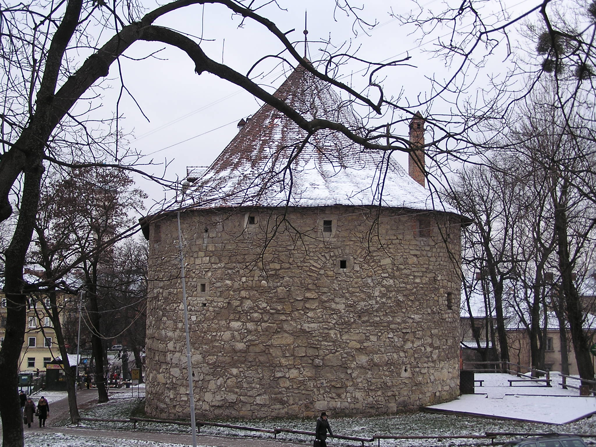 Lviv